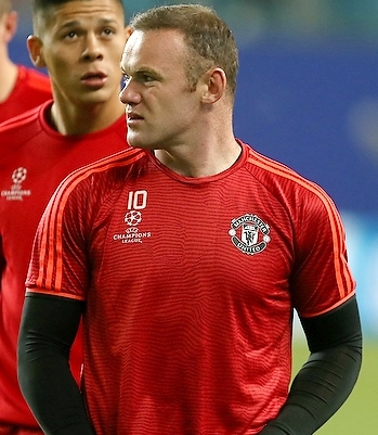 Wayne Rooney